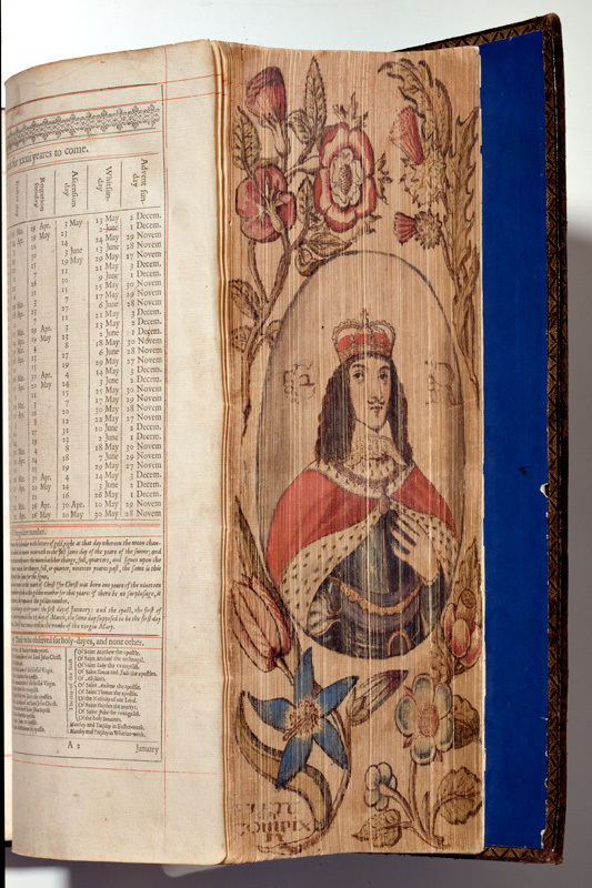 Fore-edge painting, a portrait of Charles II of England surrounded by (heraldic) flowers and in the left bottom the signature 'Fletcher compinxit'. From the Special Collections of the National Library of the Netherlands , 1786 B 24